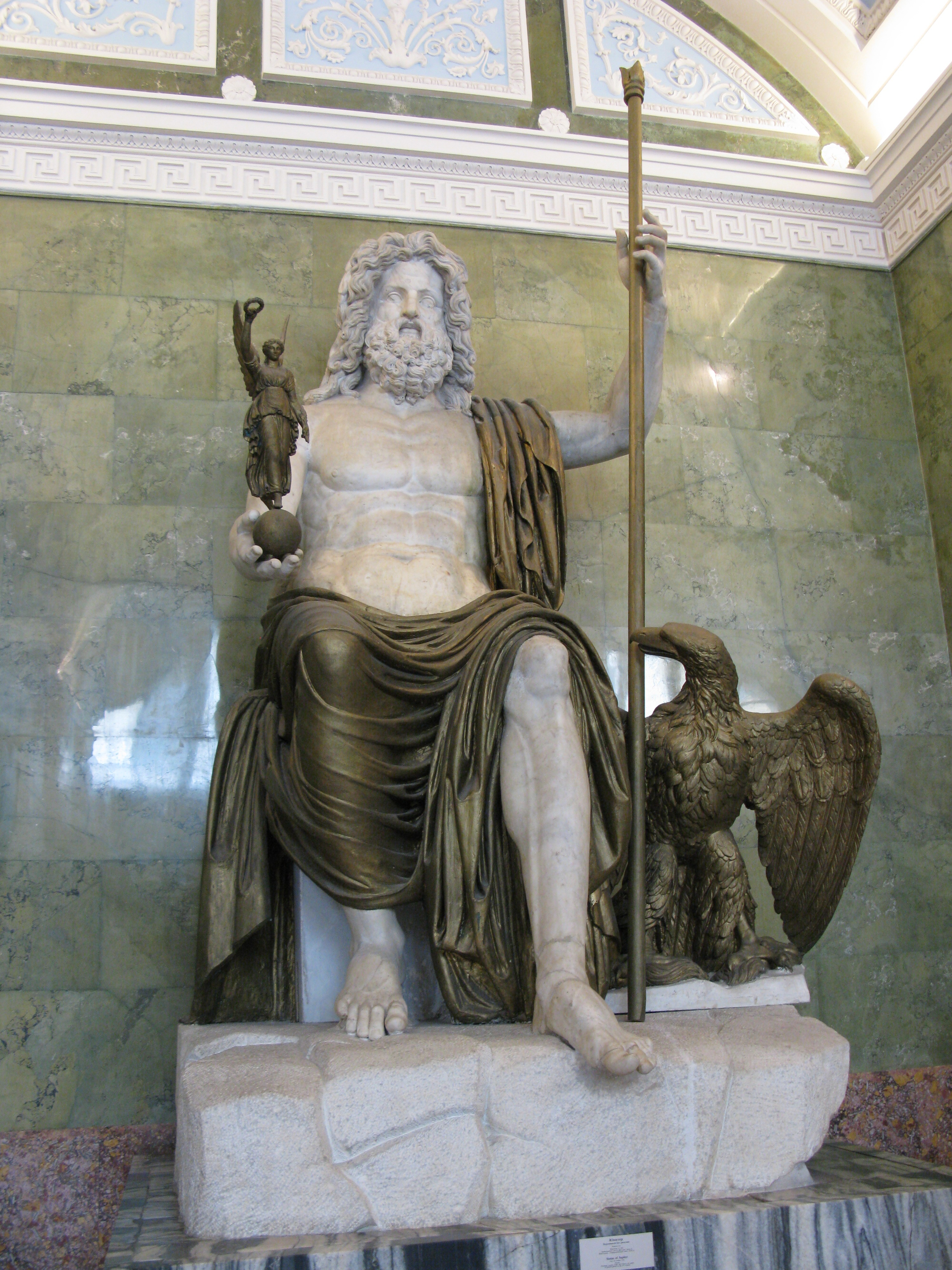 Statue of Jupiter Late 1st century AD, marble. Drapings, cepter, Eagle, and Victory are made of painted plaster dating to the 19th century.